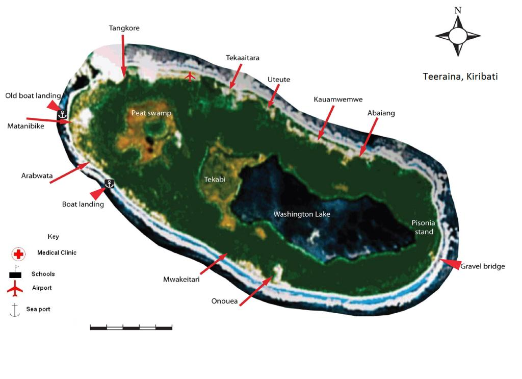 Astronaut photo of Teeraina, Kiribati with villages and main landmarks